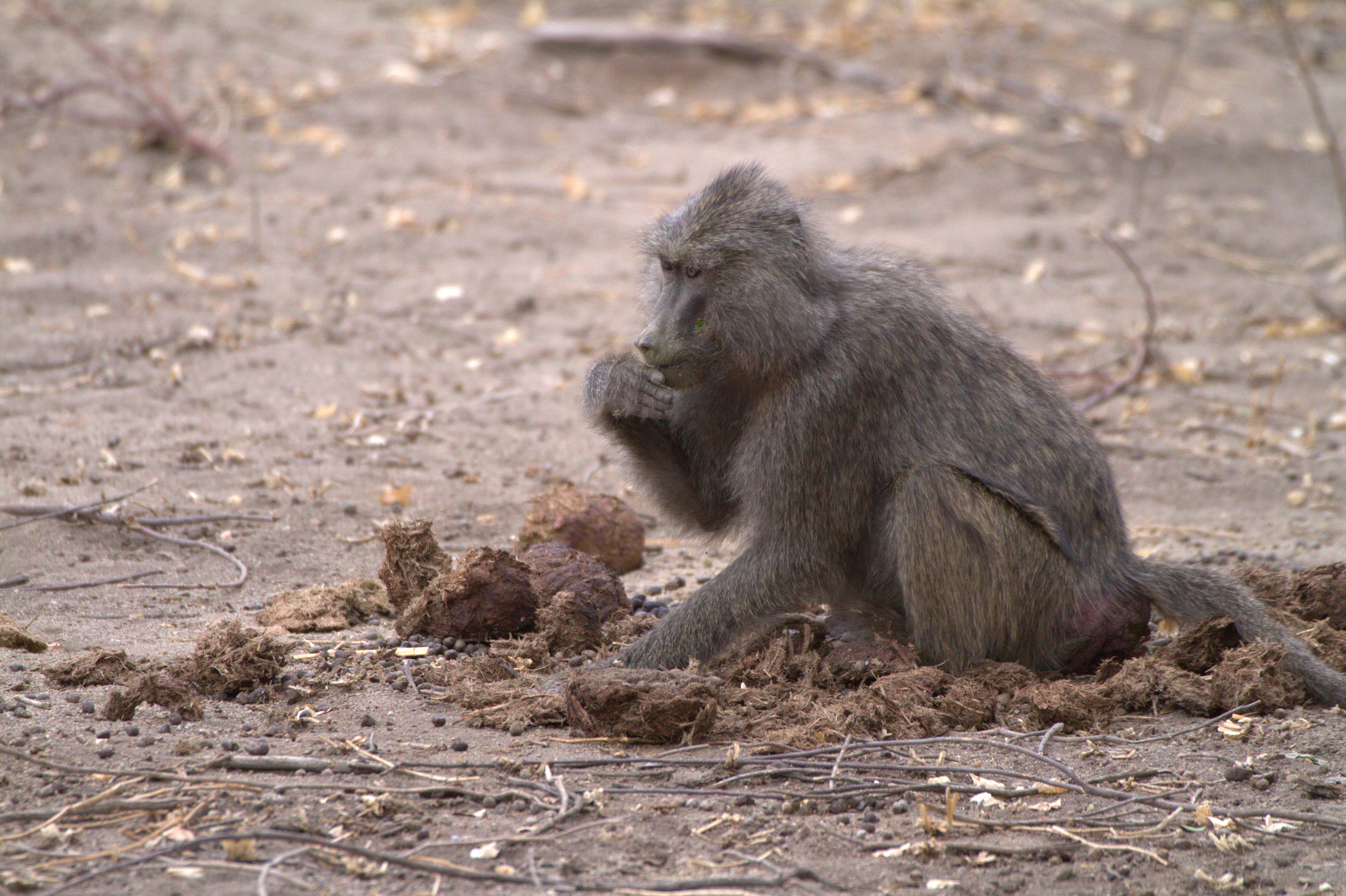 Baboon eating elephant dung